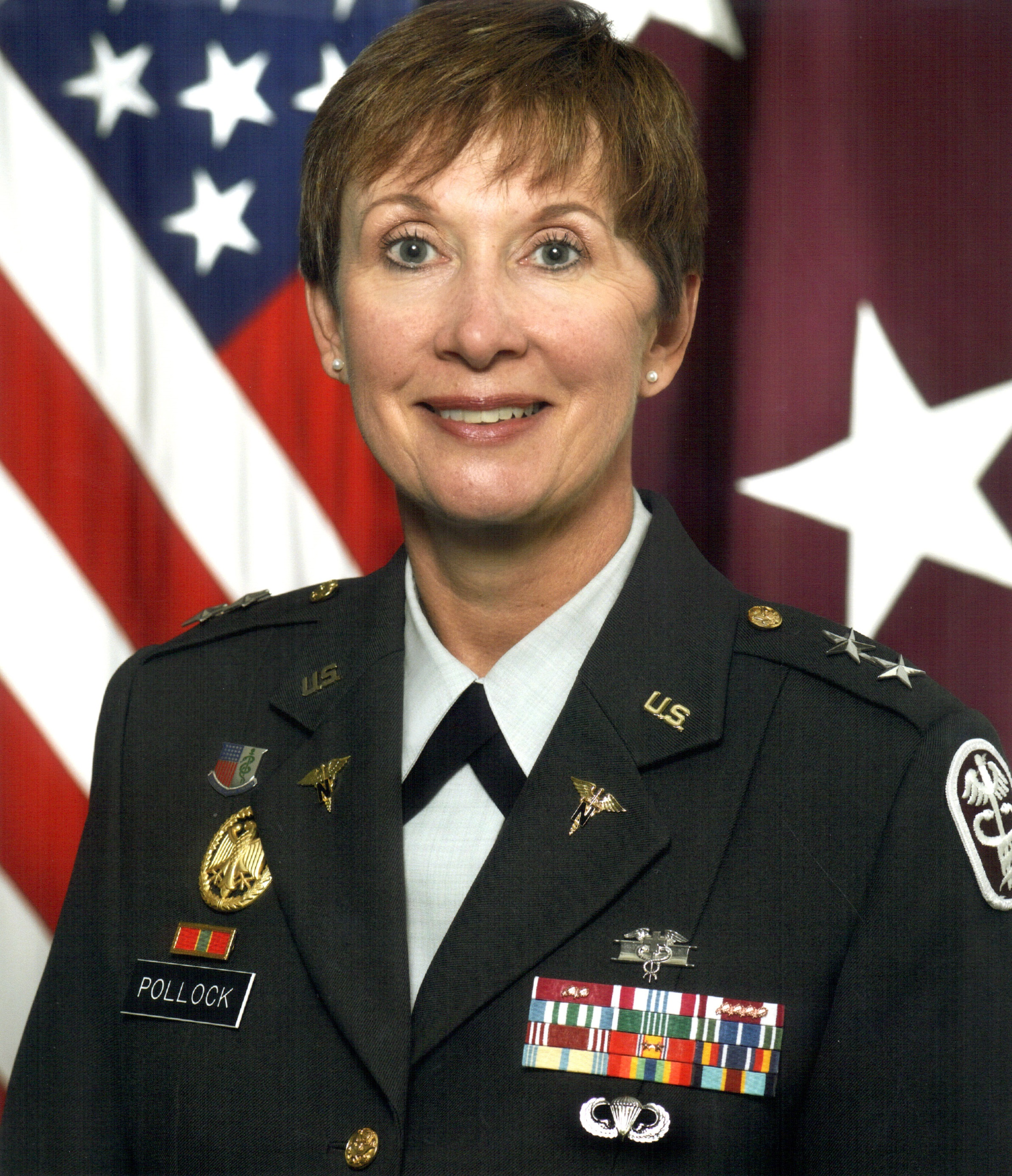 Gale Pollock, Deputy Surgeon General of the U.S. Army and acting Surgeon General.